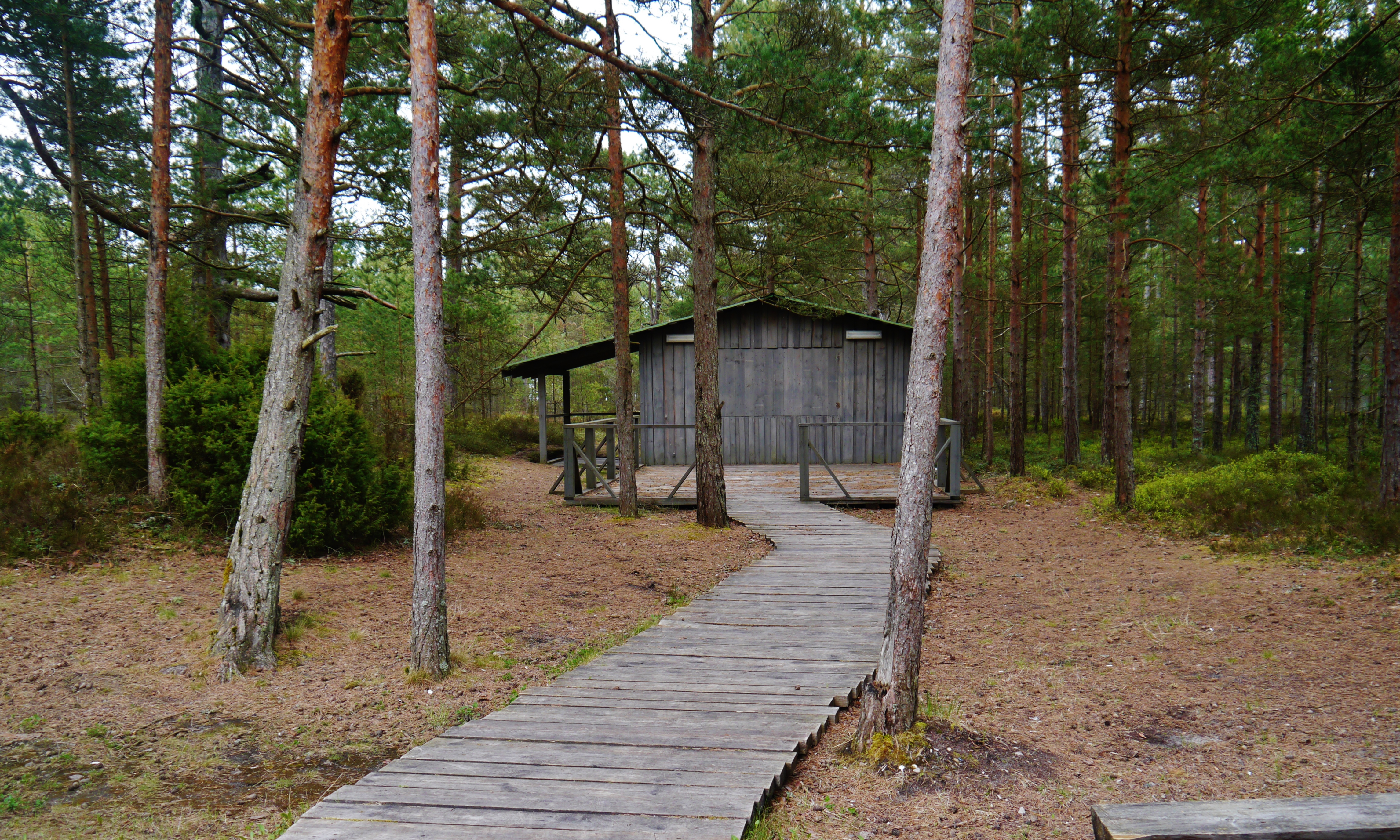 Forest at Cape Kolka near Kolka, Latvia